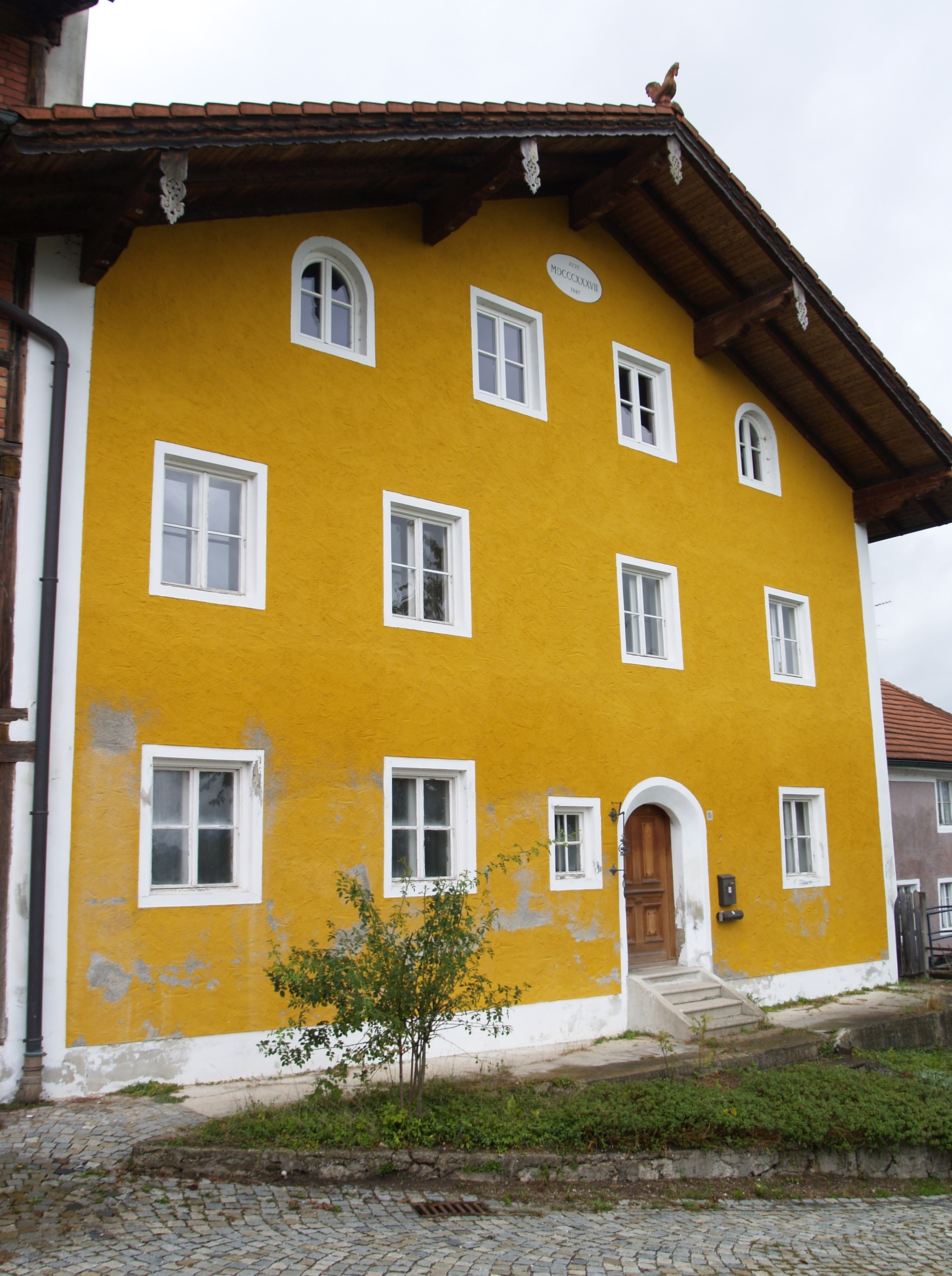 This is a photograph of an architectural monument.